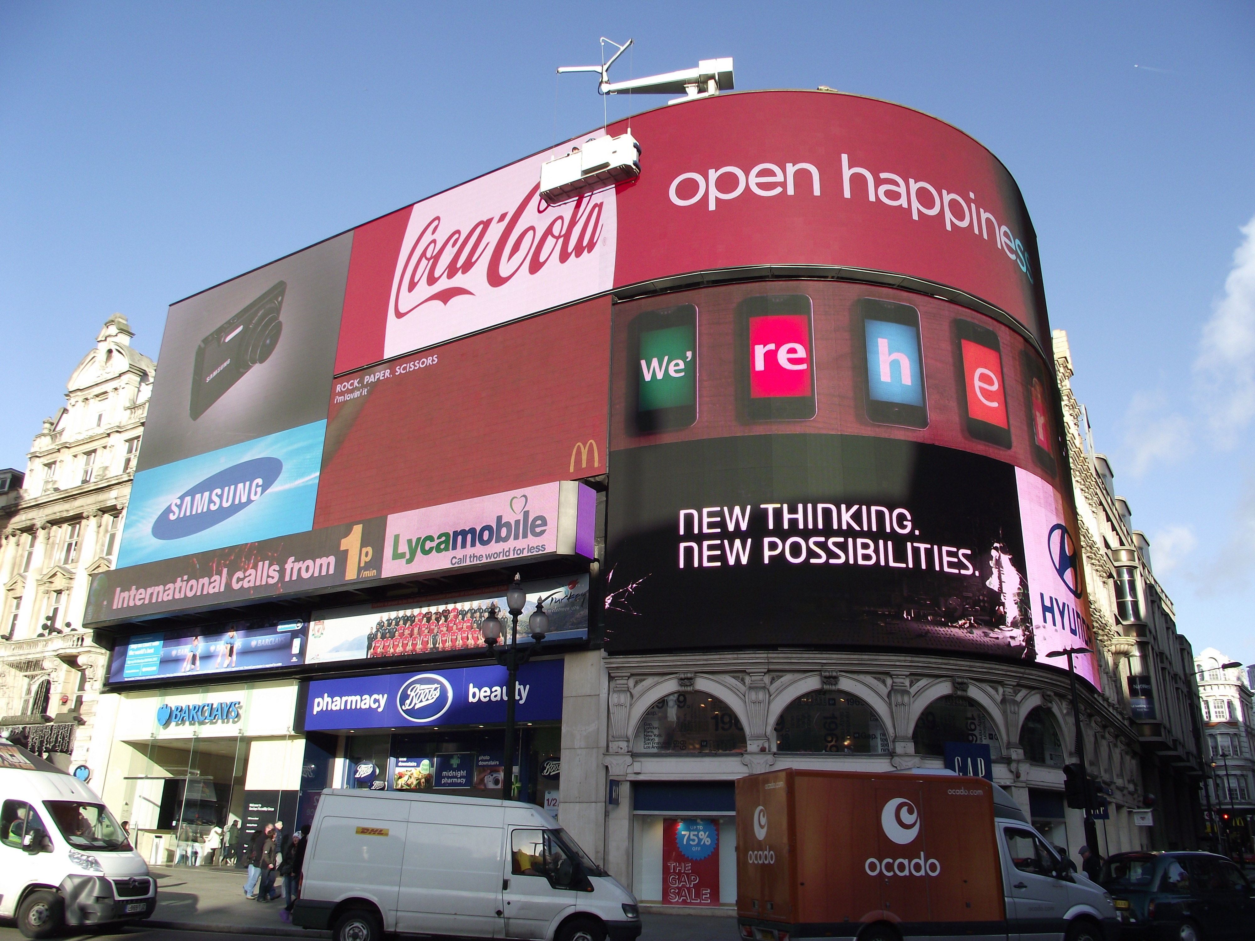 The illuminated signs of Piccadilly Circus by day, January 2012. Traditionally powered by neon lights in the 20th century, they were gradually upgraded to digital LED screens between 2001 and 2011.